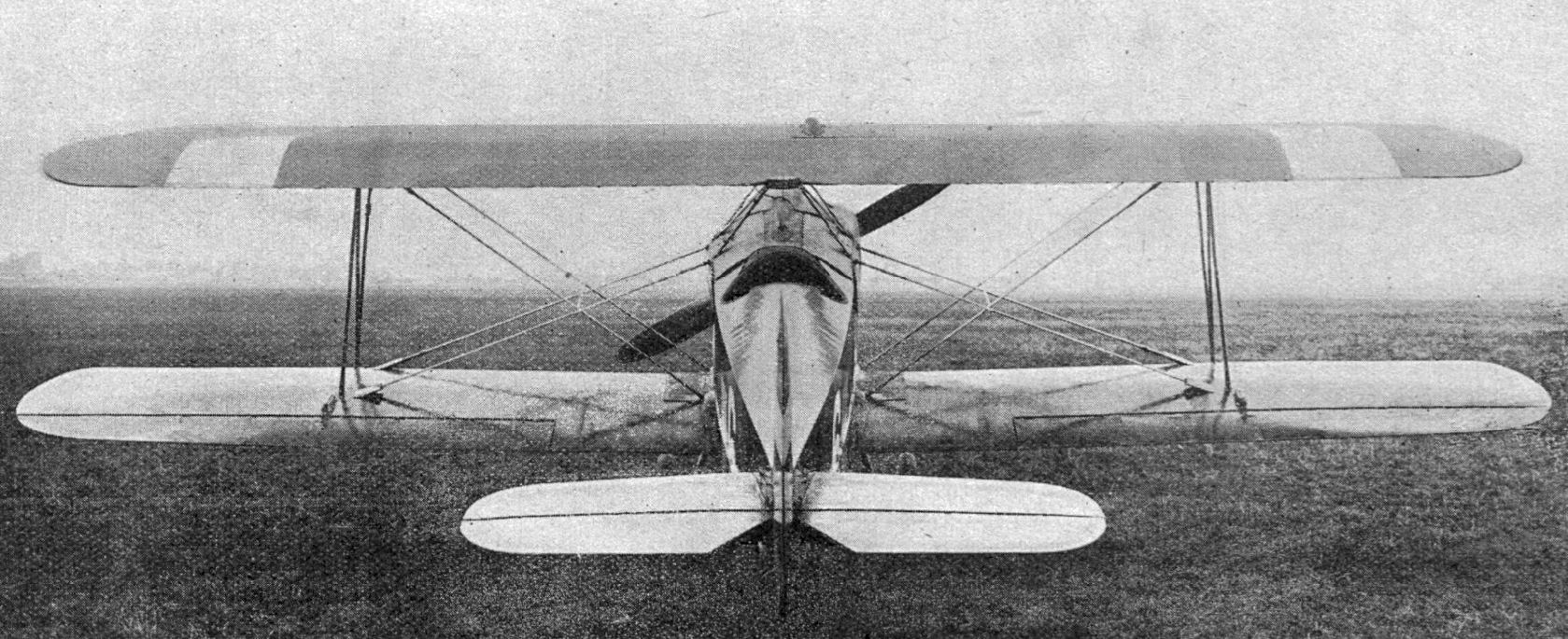 Avia BH-22 photo from L'Aéronautique December,1926